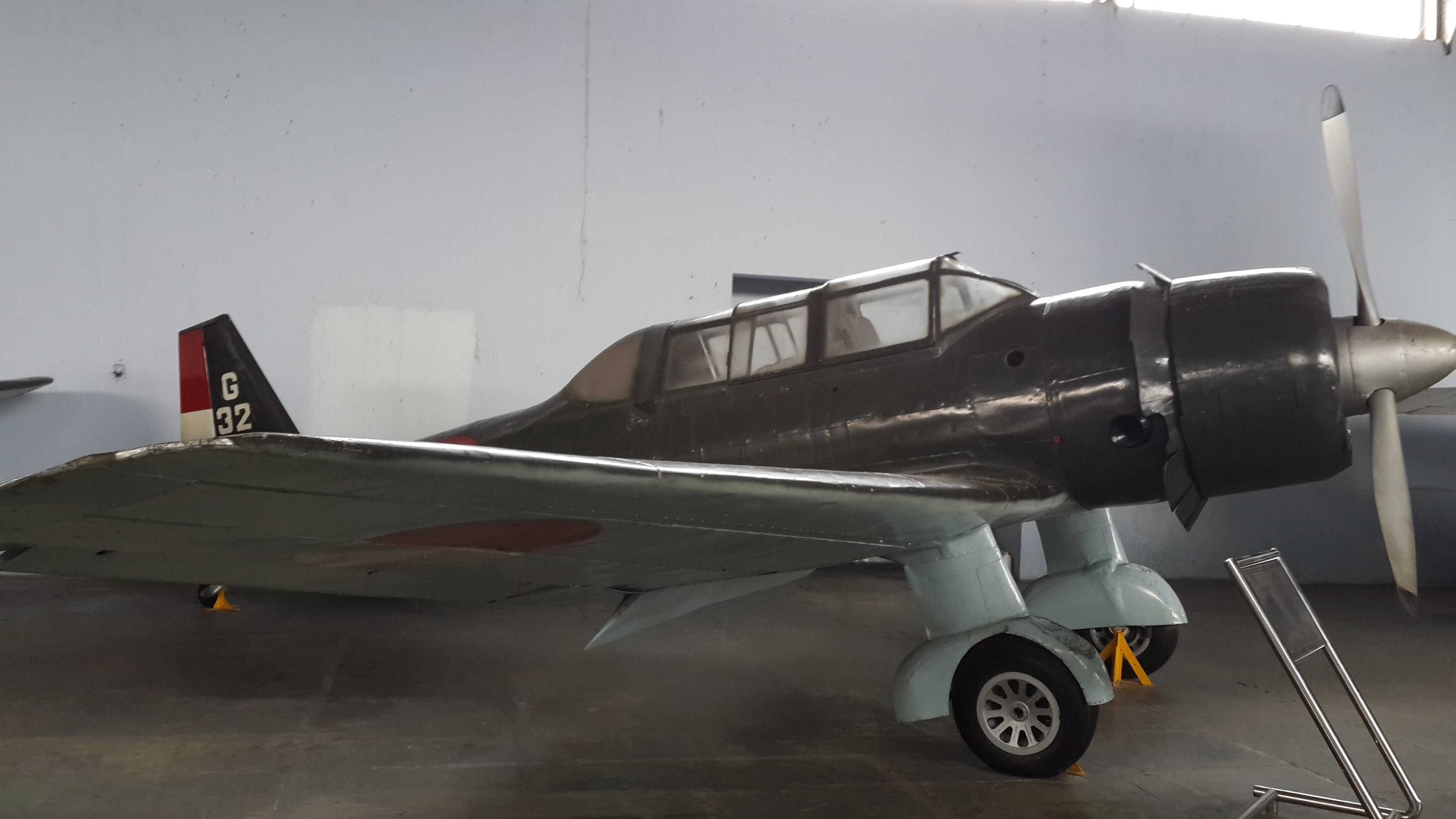 Mitsubishi Ki-51 in the Indonesian Air force Museum, Yoygyakarta